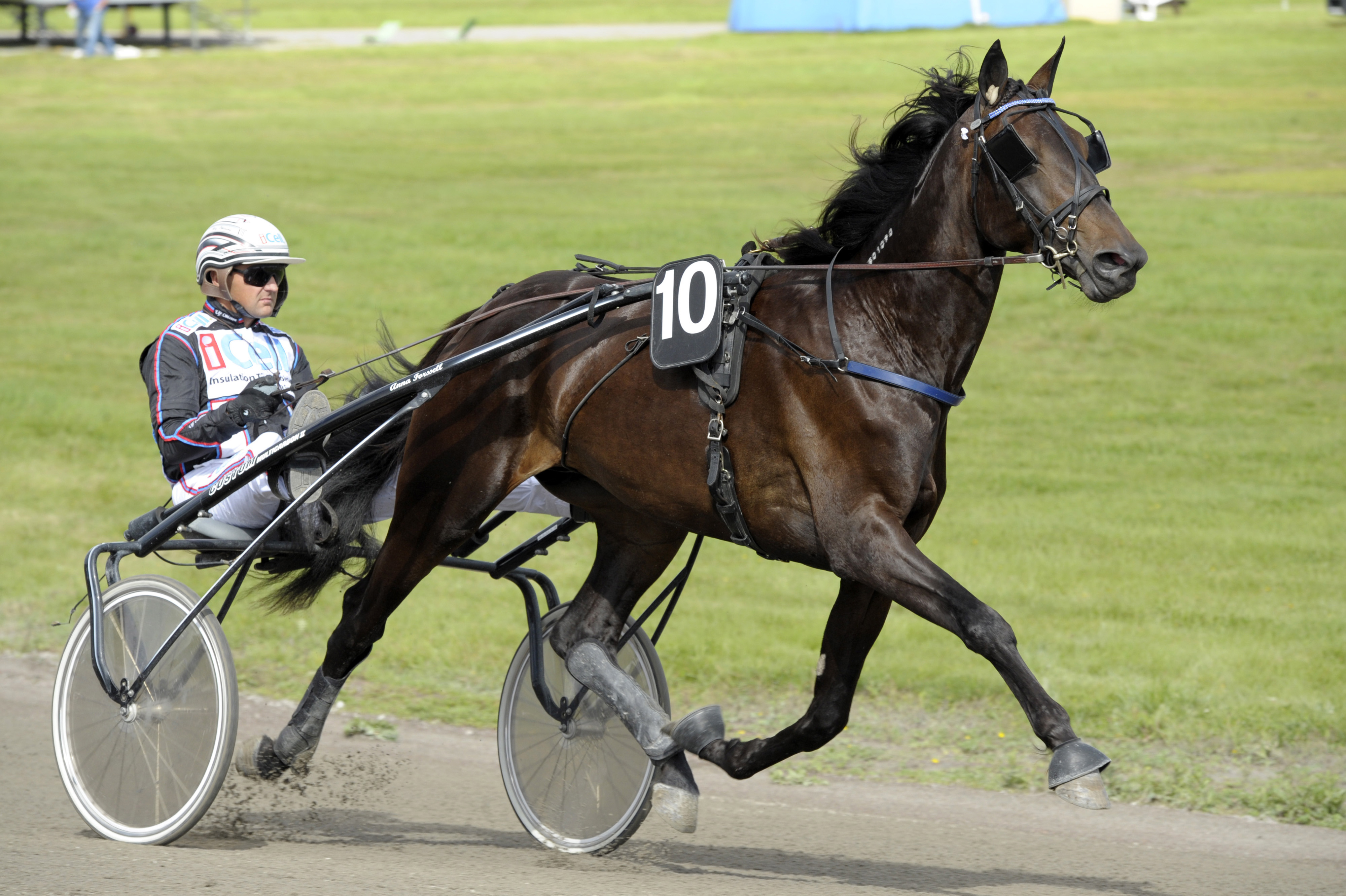 Rokkakudo and driver Ulf Ohlsson. Örebrotravet. 2013-08-17.